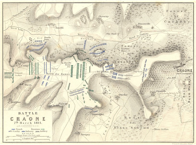 Colored print shows a map of the Battle of Craone on 7 March 1814. The author is listed as AK Johnston. The map is from Alison's History of Europe, published in 1848.